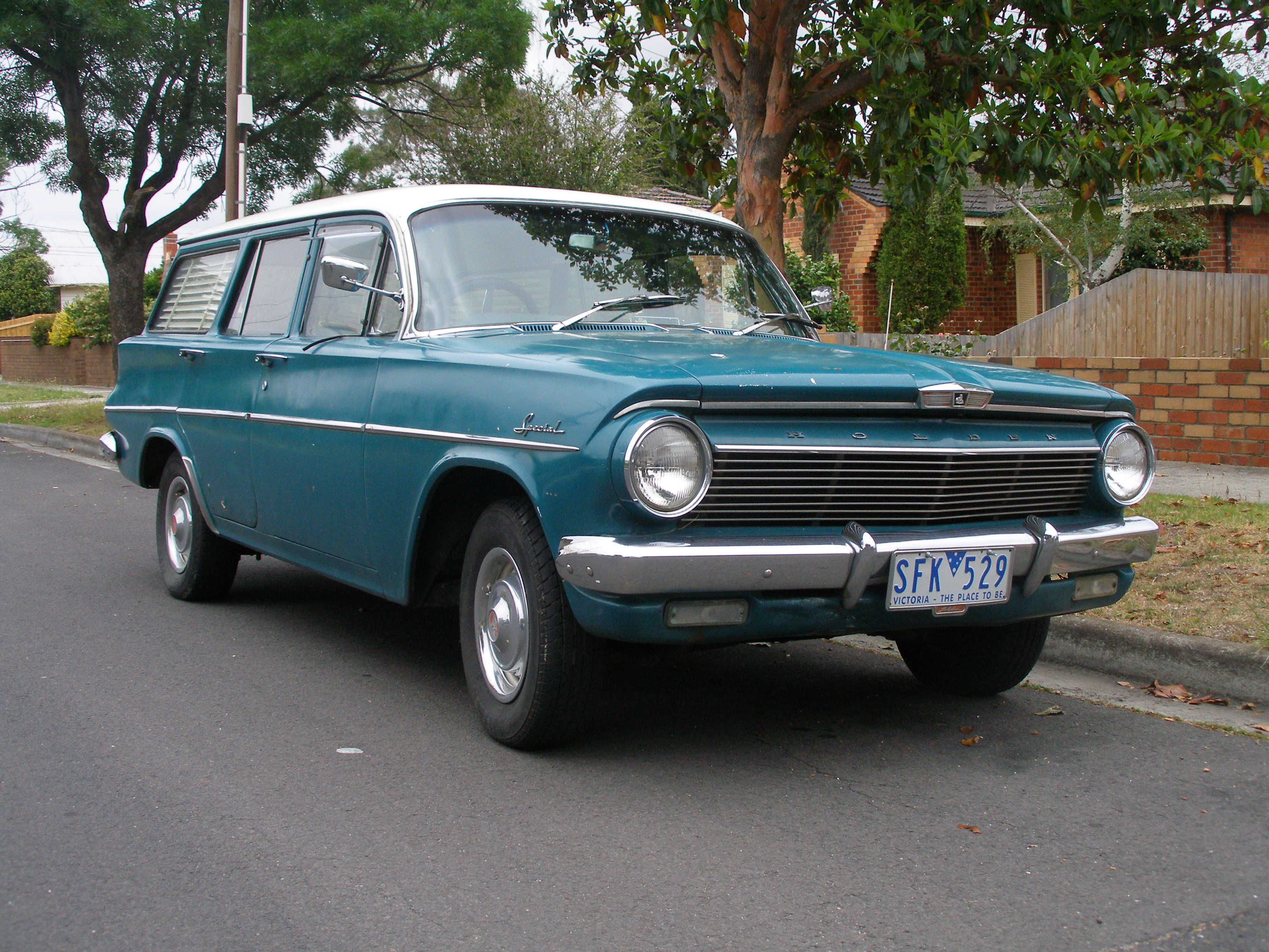 1962–1963 Holden EJ Special station wagon, photographed in Victoria, Australia.